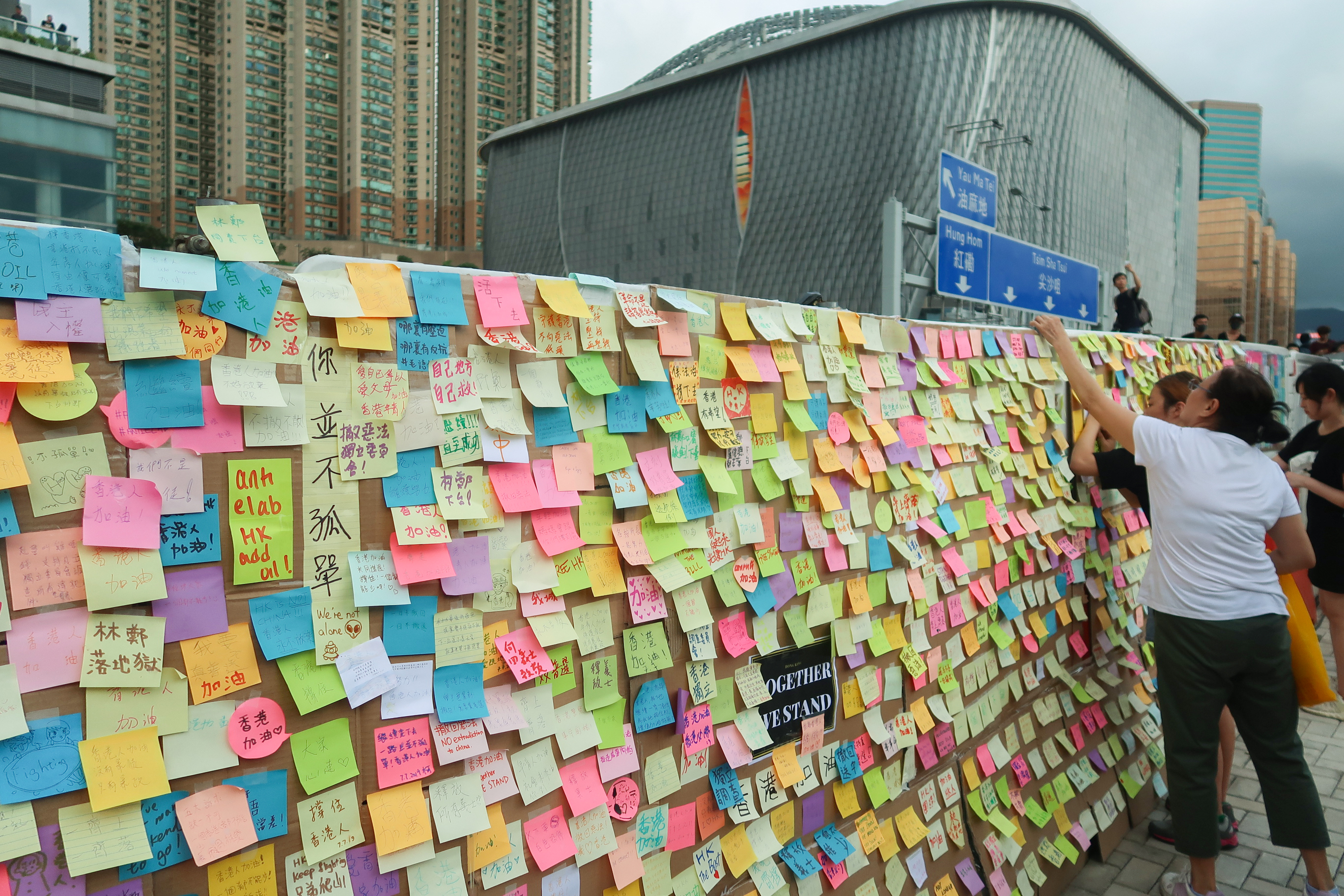 West Kowloon Station outside space Lennon Wall